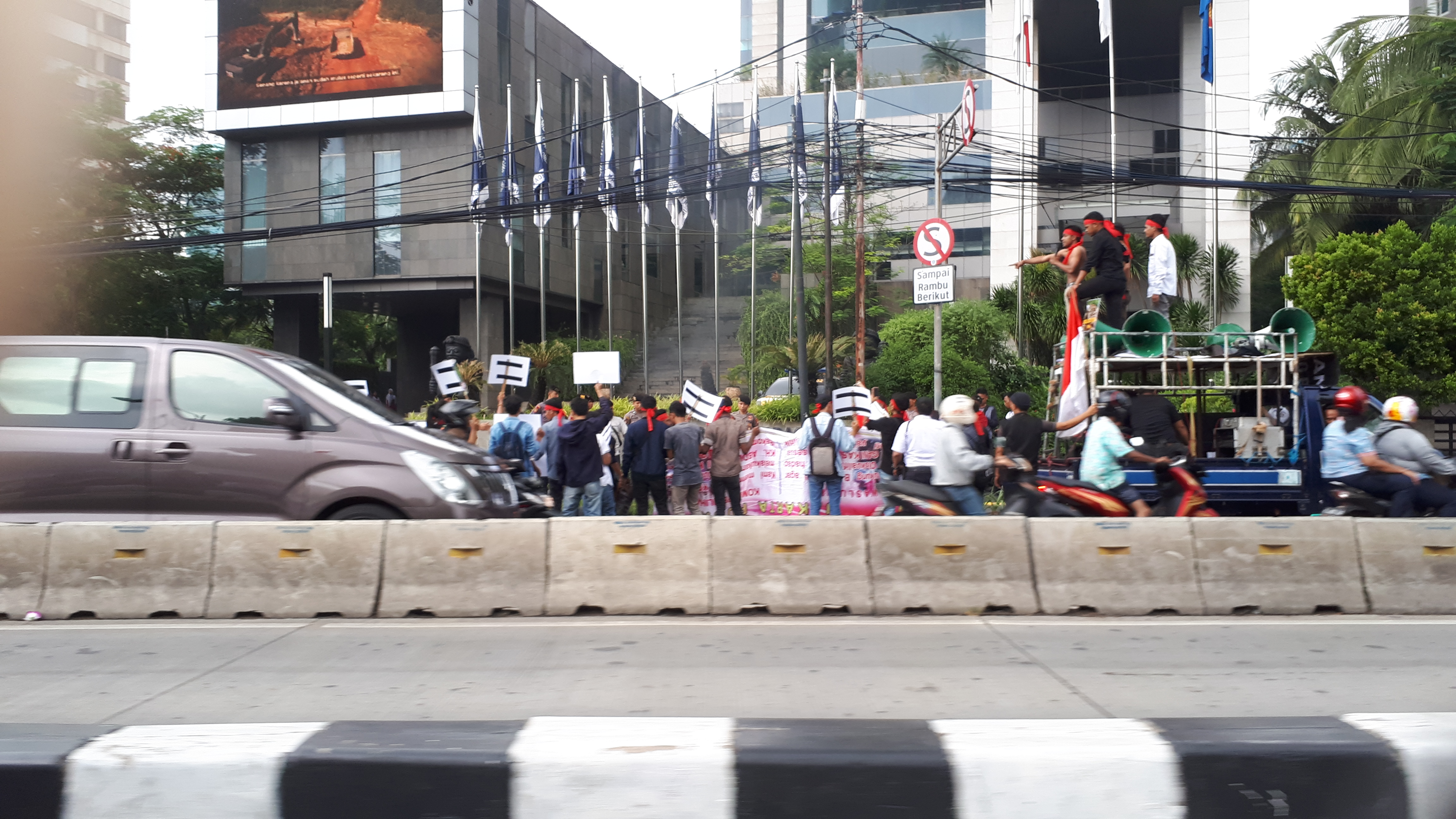 Demonstration in front of the Marine and Fishery Ministry in Jakarta.